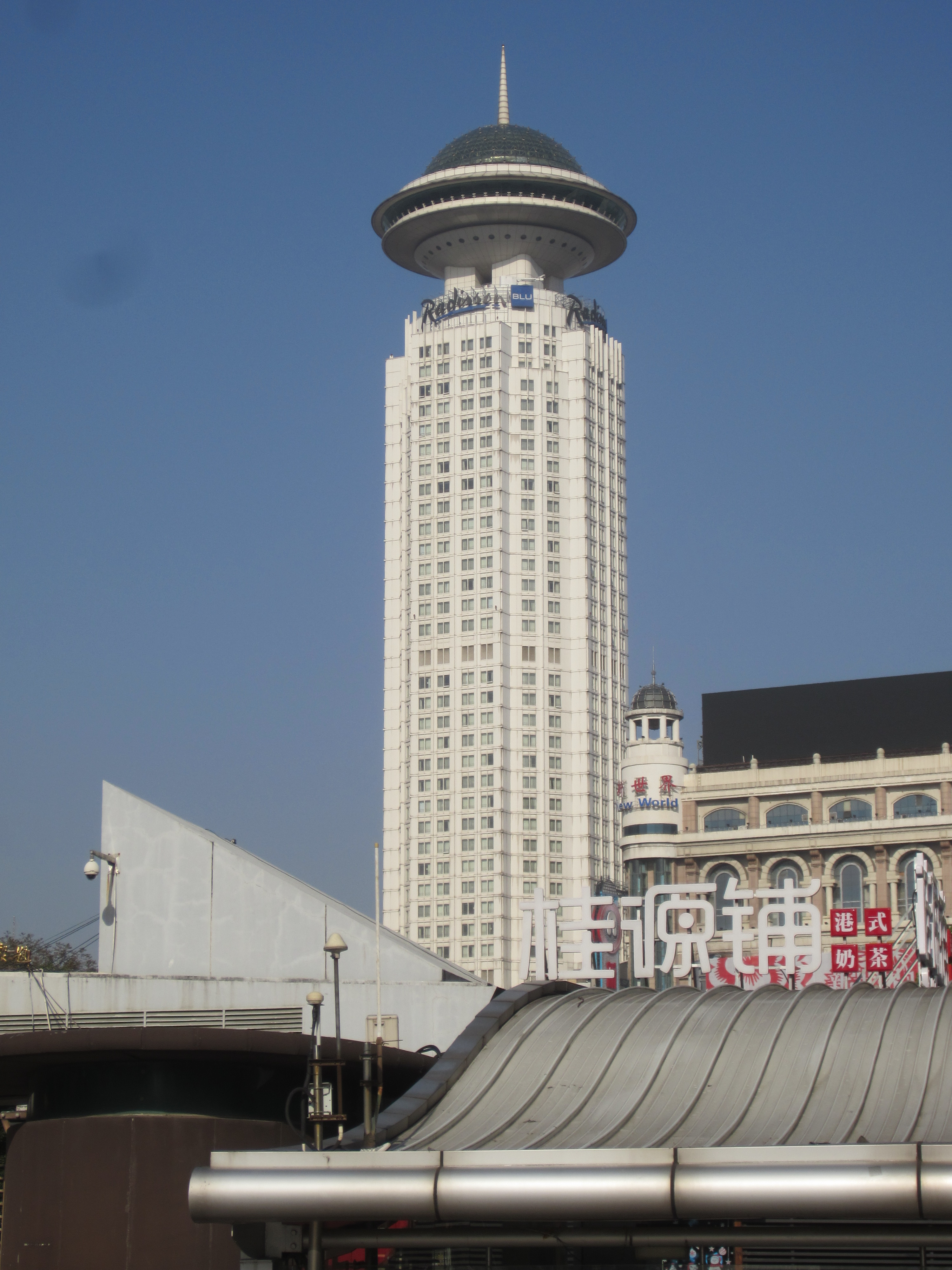 Shanghai, China, December 2015